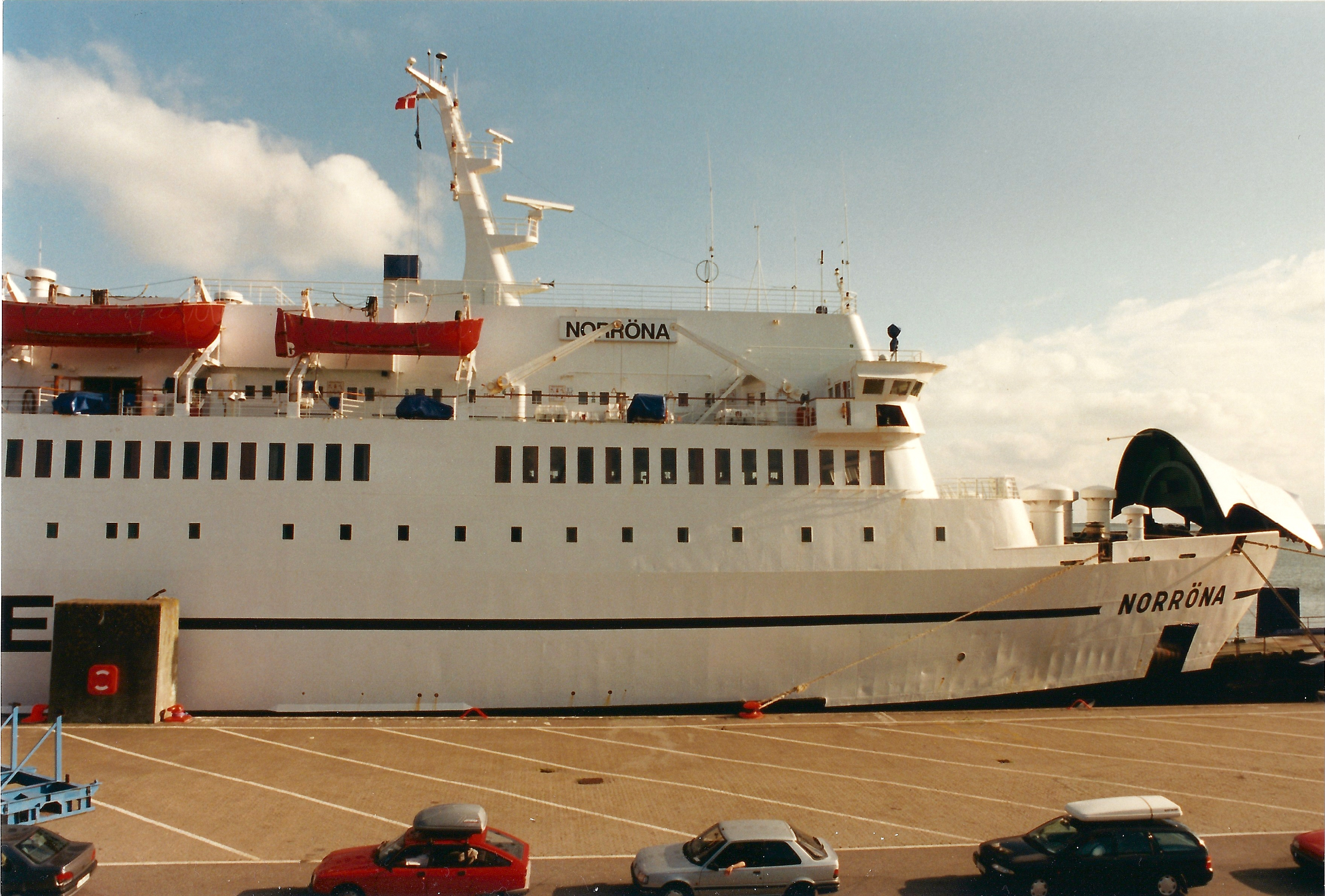 The old Norröna ferry (formerly MV Gustav Vasa, later Logos Hope) in the harbour of Esbjerg, summer 1997.